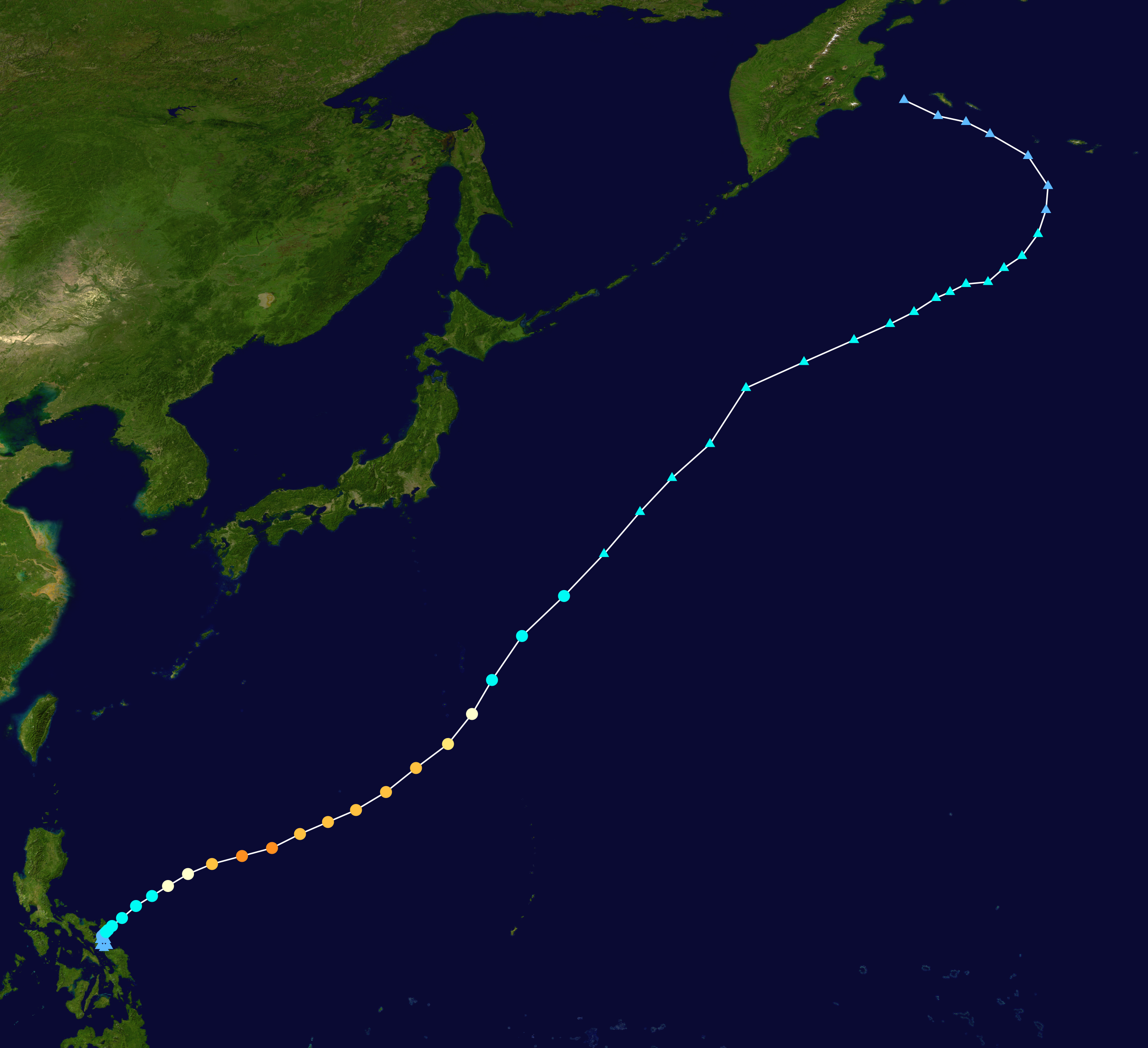 Track map of Typhoon Kujira of the 2009 Pacific typhoon season. The points show the location of the storm at 6-hour intervals. The colour represents the storm's maximum sustained wind speeds as classified in the Saffir–Simpson scale (see below), and the shape of the data points represent the nature of the storm, according to the legend below. Saffir–Simpson scale Tropical depression≤38 mph≤62 km/h Category 3111–129 mph178–208 km/h Tropical storm39–73 mph63–118 km/h Category 4130–156 mph209–251 km/h Category 174–95 mph119–153 km/h Category 5≥157 mph≥252 km/h Category 296–110 mph154–177 km/h Unknown Storm type Tropical cyclone Subtropical cyclone Extratropical cyclone / Remnant low / Tropical disturbance / Monsoon depression